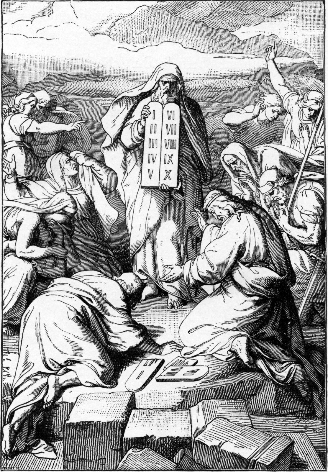 Moses with the Two New Tables of Stone. Caption: "Moses has been up on the mountain again. Before he went up God told him to make two new tables of stone like those that were broken; and God wrote the ten commandments on these two tables also. You and I must obey these commandments as carefully as the Israelites did in the old time. In this picture we see Moses. He has come down from the mountain with the two tables in his hands. He is showing them to the people. The people are kneeling down and promising to obey them. They say they will not worship idols any more." Illustration from the 1897 Bible Pictures and What They Teach Us: Containing 400 Illustrations from the Old and New Testaments: With brief descriptions by Charles Foster